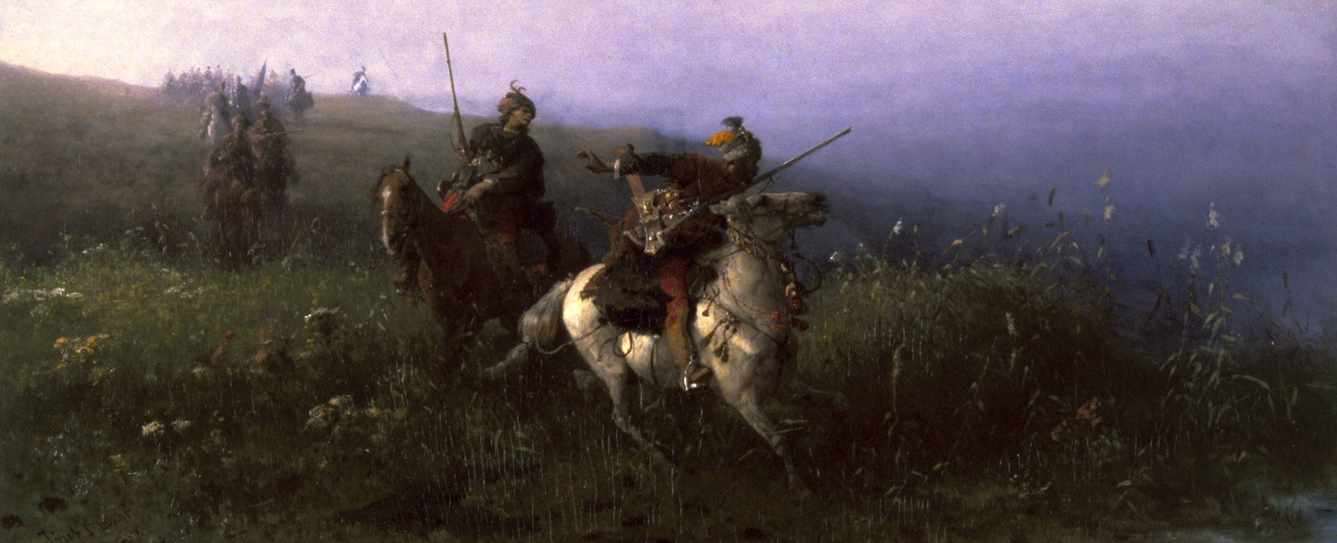 Brandt, a painter of military campaigns and eastern European trail scenes in which horses serve as a recurring motif, distinguished himself as the leader of the "Munich school of Polish painters," an informal band of realists of Polish origin active in Munich in the 1870s. In search of exotic subjects he frequently traveled eastward, visiting Ukraine and the European parts of Turkey. A consummate painter of horses, Brandt shows a procession of Tartar horseman proceeding across a grassy plain dotted with colorful wildflowers. The figure on a dapple horse in the central foreground, startled by something in the rushes at the right, halts, brandishes his rifle, and raises his hand to caution his companion. In the background, the rest of the group rides across the hill toward the two figures in the foreground. The horsemen wear bright red pants, boots, and turbans with feathers; the turban of the man on the dapple horse is a particularly brilliant saffron. Along with the rifles they carry, each has additional weapons around their waists, including bows and axes. The reins and saddles of the horses are embellished by beads and decorative metalwork.